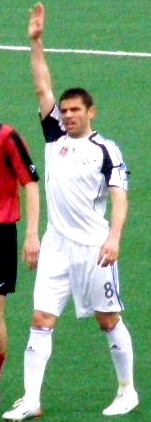 Marko Topić in action for FC Saturn Ramenskoye